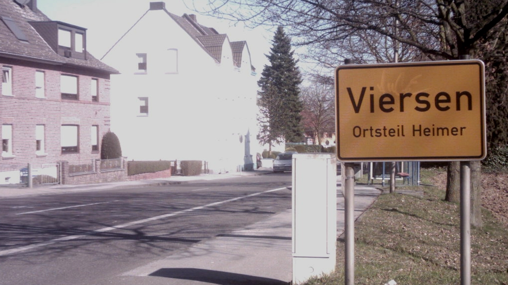 City limit Sign in Heimer, Viersen, Germany